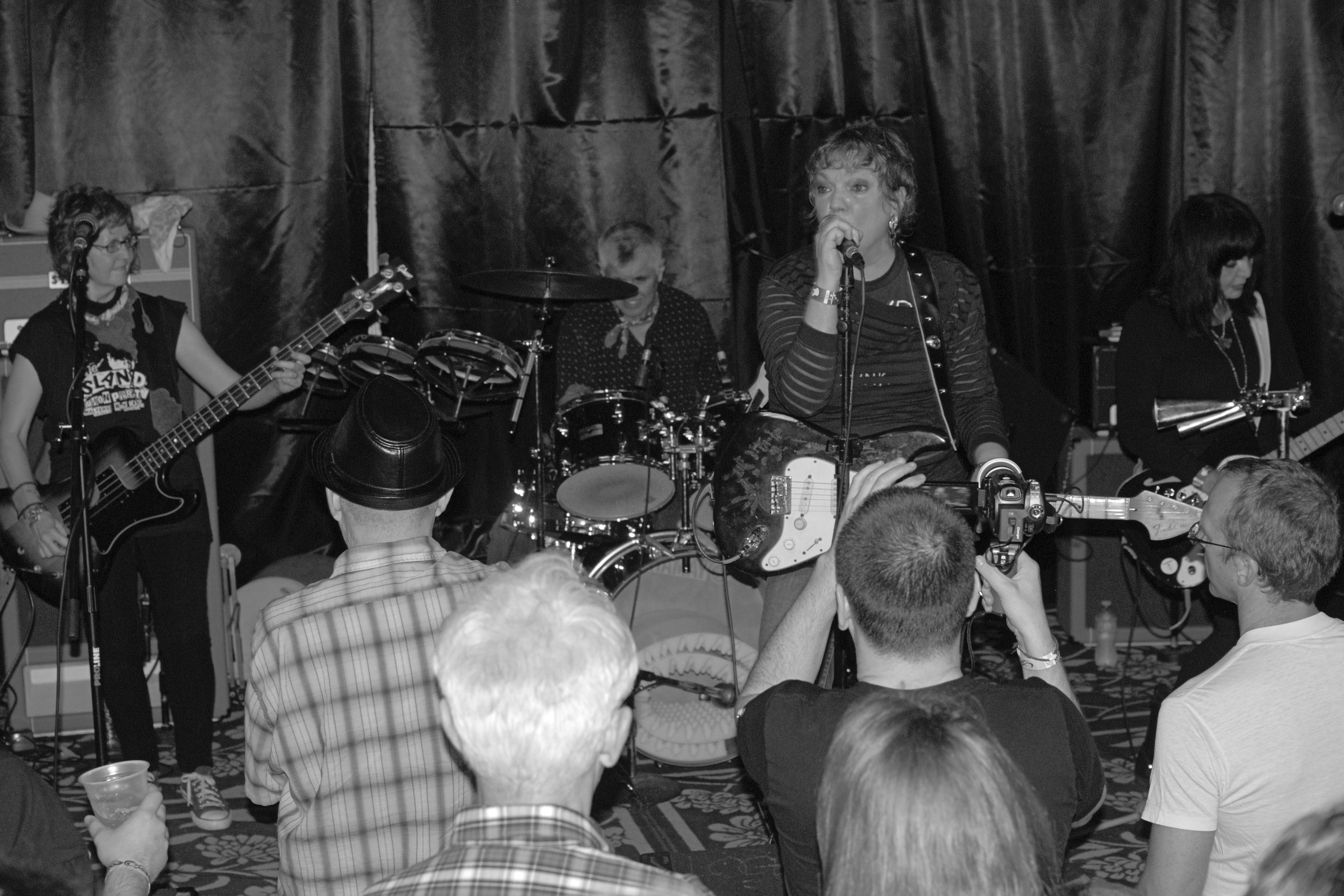 MyDolls live, Rock Island Reunion show at Walter's in Houston.